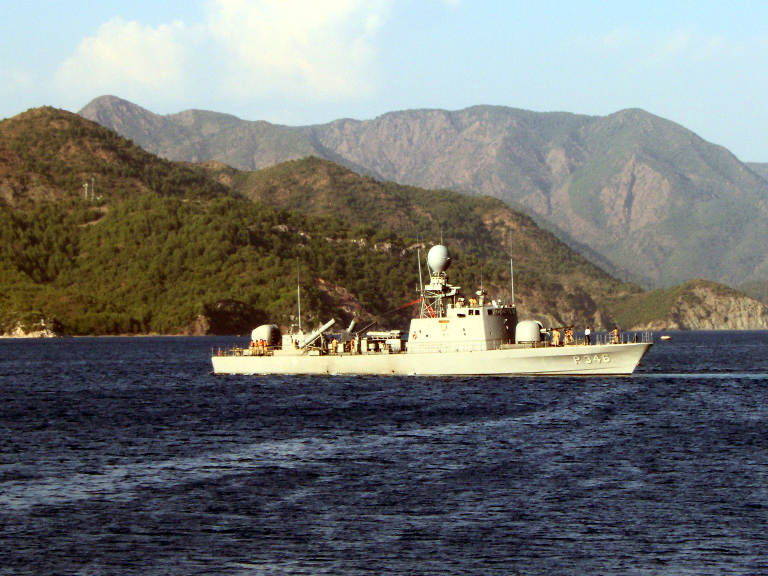 Turkish patrol boat P-346 Gurbet